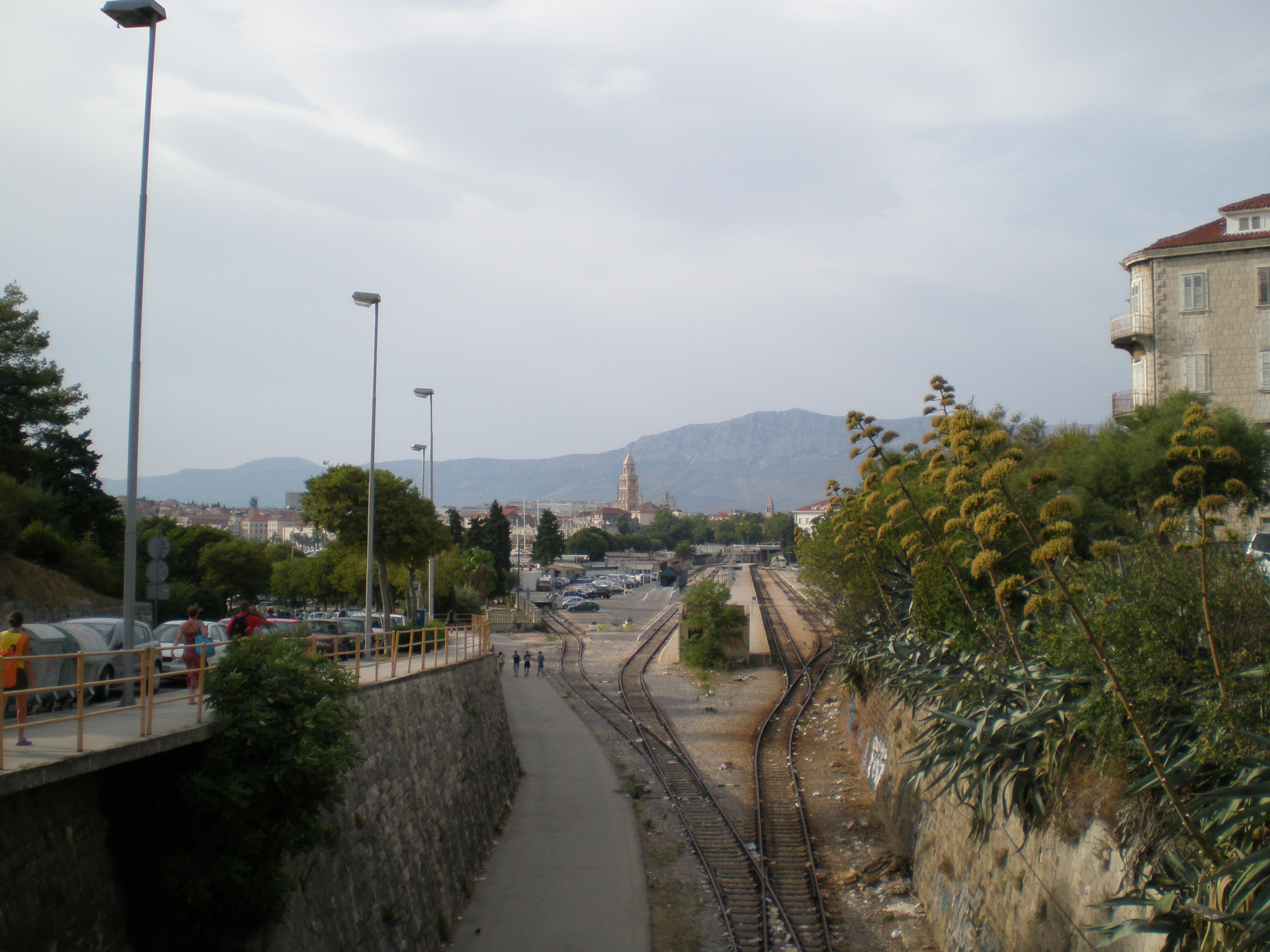 Split Station, Split, Croatia